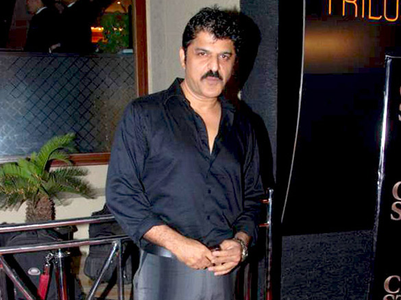 Rajesh Khattar at Chivas Studio Spotlight event